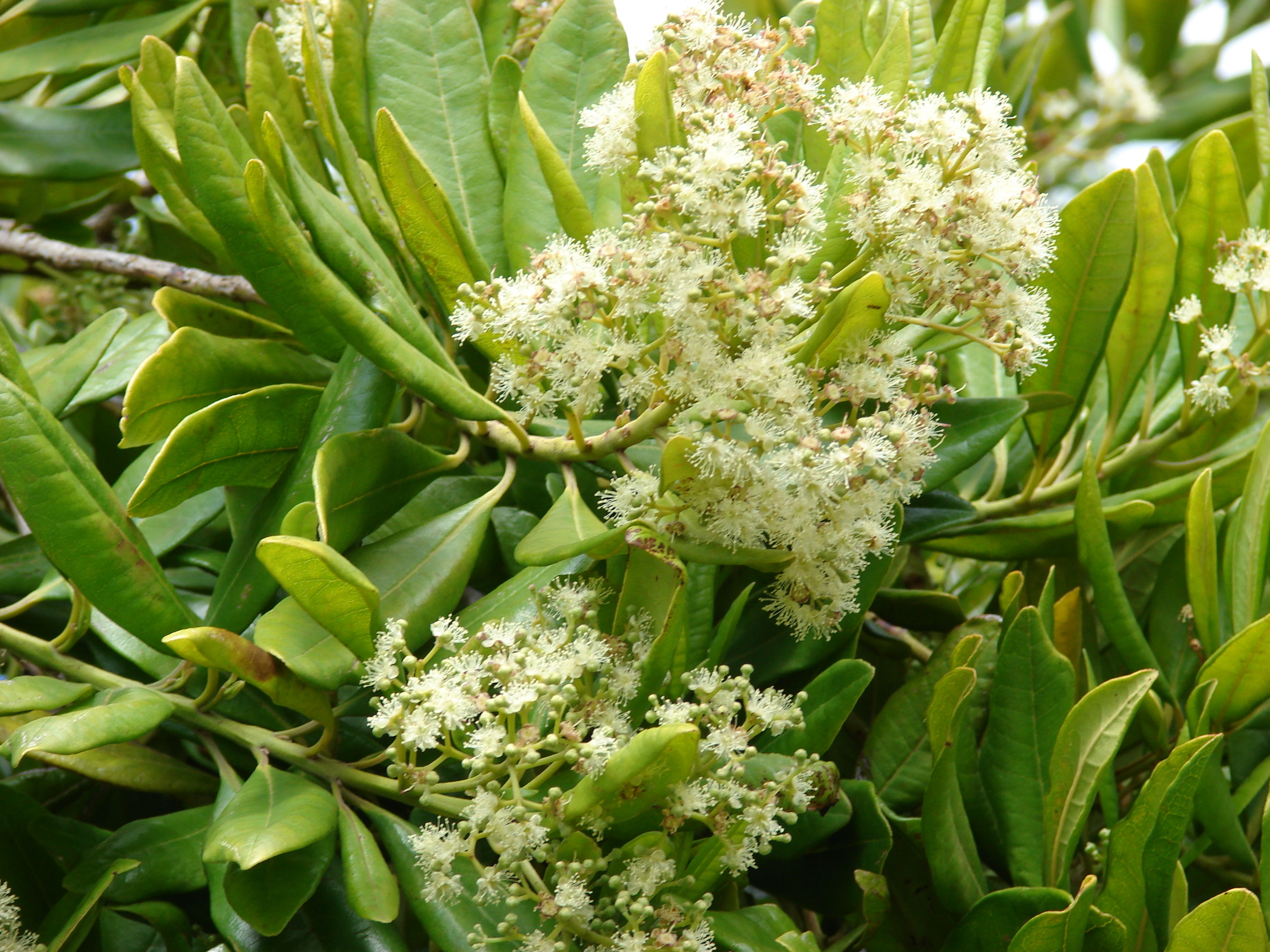 Pimenta dioica (flowers and leaves). Location: Maui, Community Center Kula